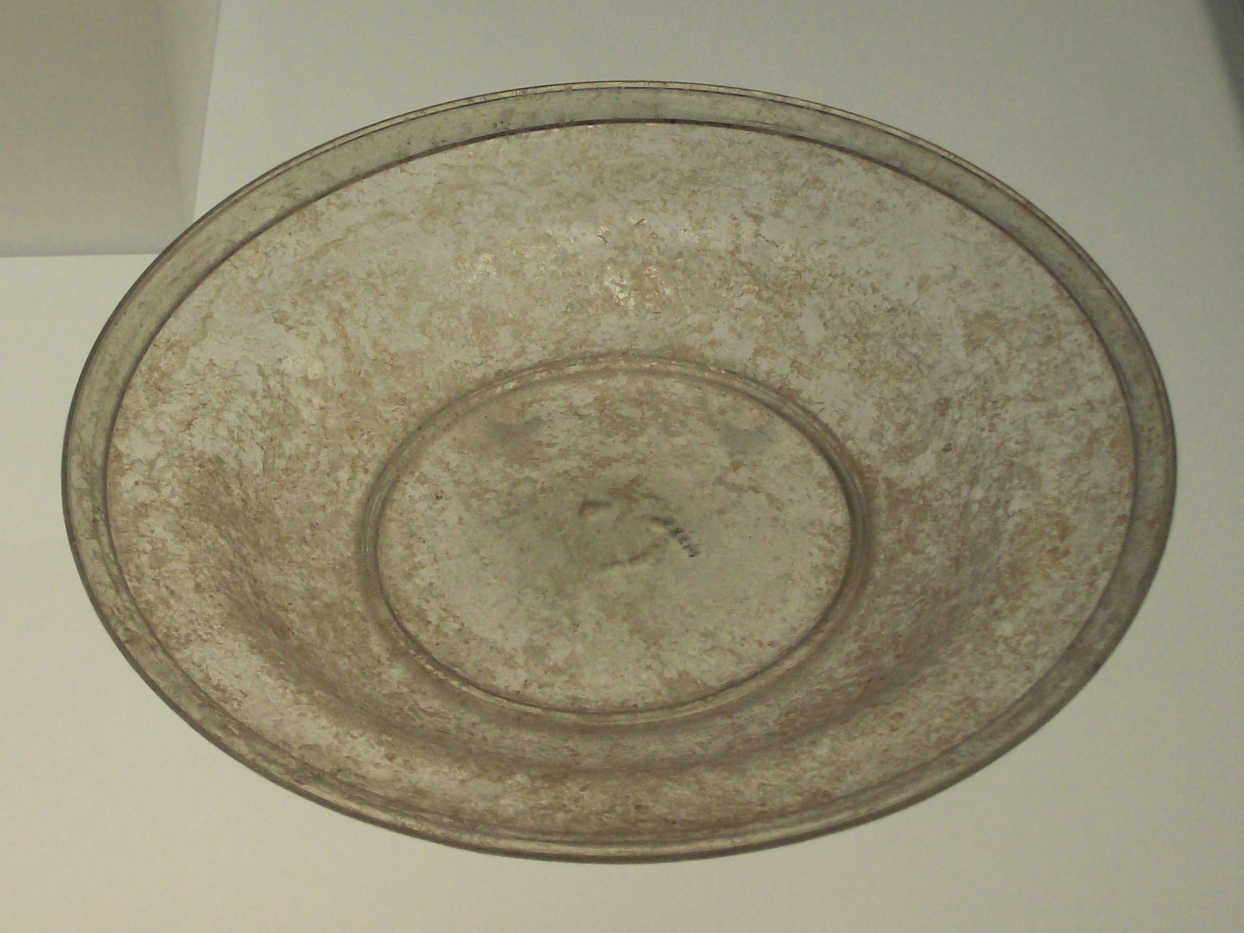 Roman plate. Typology: Hayes form 177.